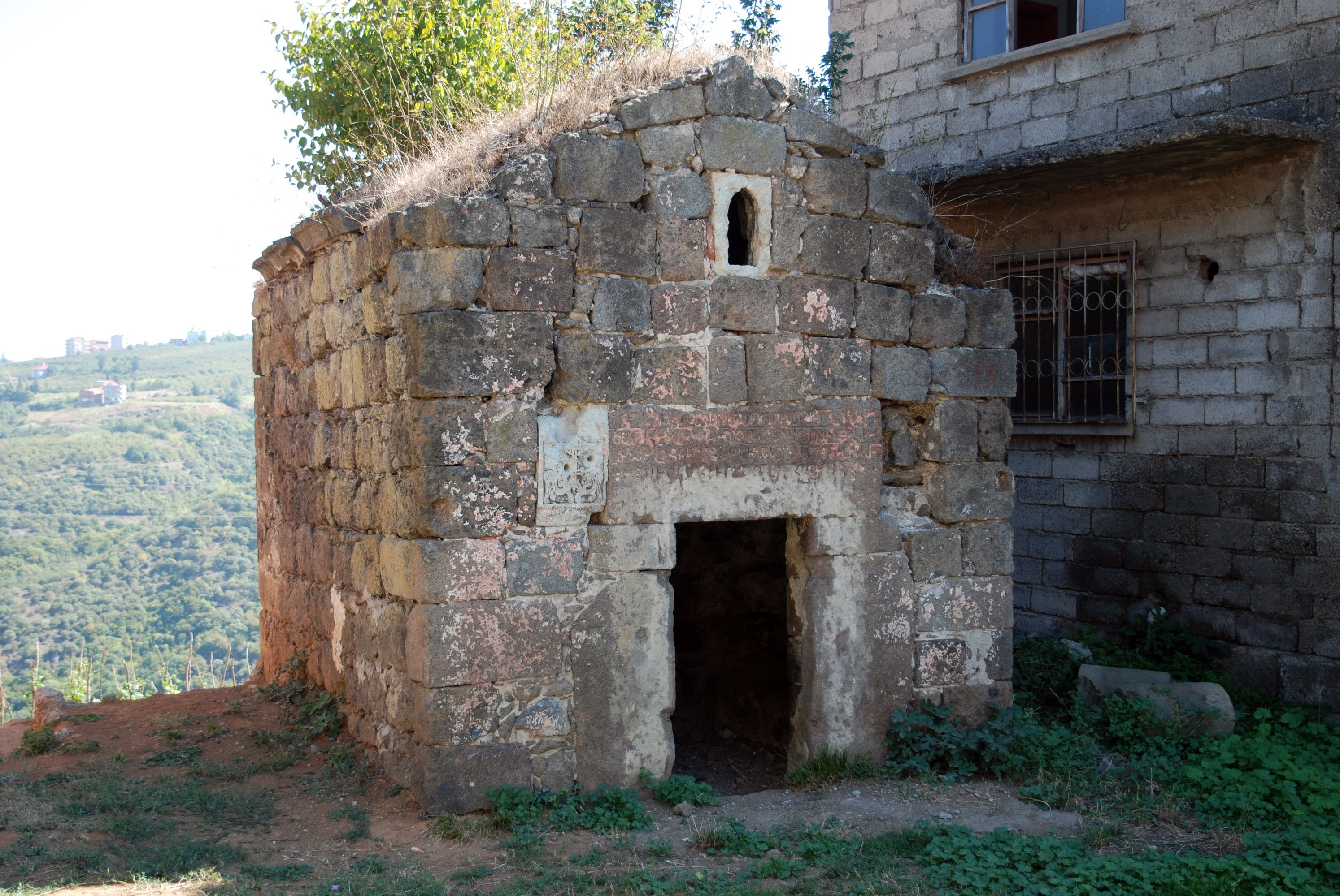 Kaymakli monastery in Trabzon, chapel